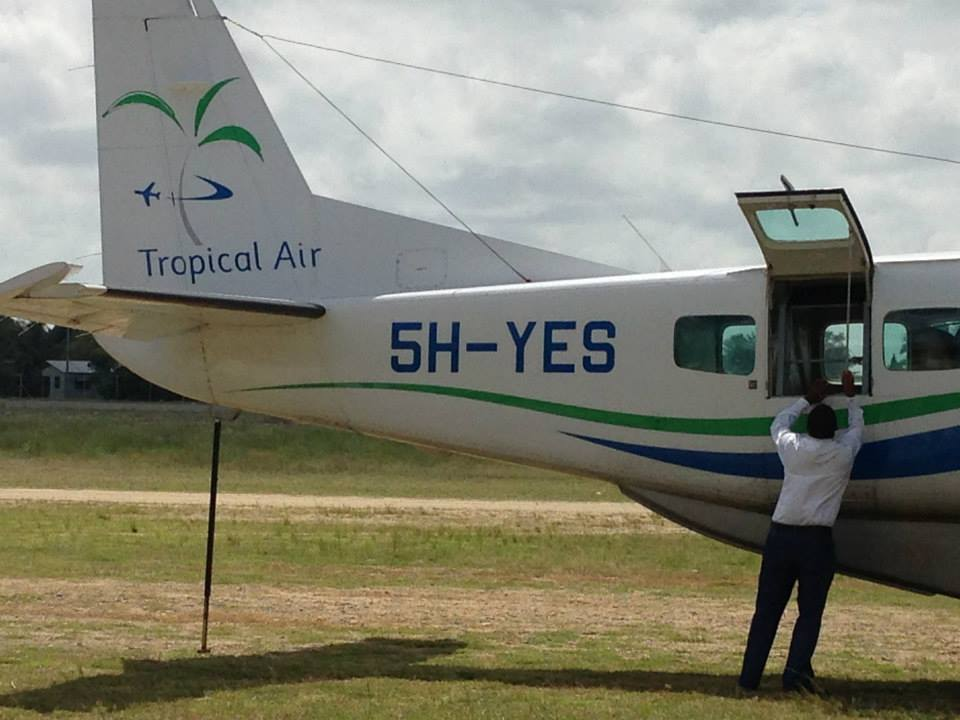 Thanks to Rachel Strahan for her photos from Tanzania Teaching & Beaches. Find out more at